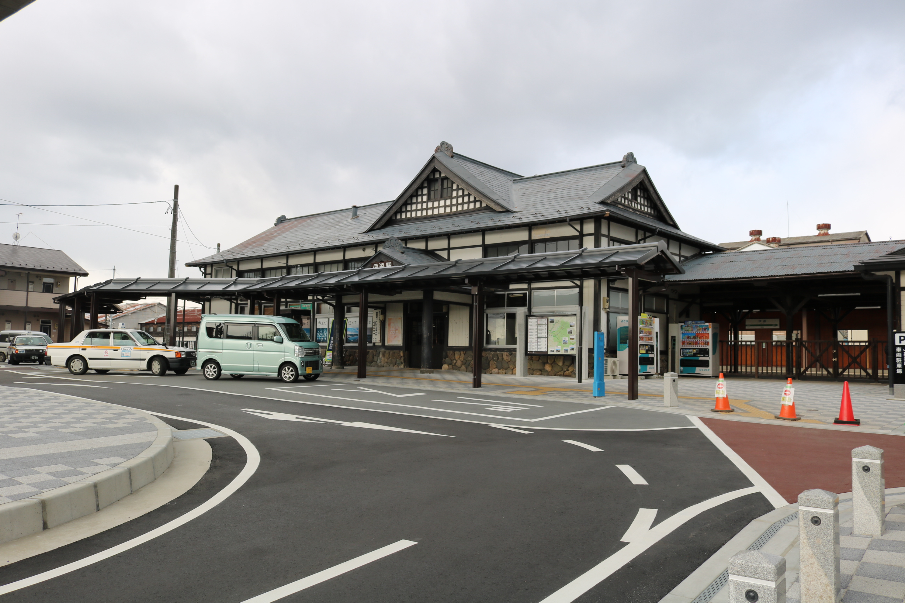 Newly paved rotary in front of Date Station, with a van and two taxis stopped in a waiting area just to the left of the entrance. The lane they are in has the word "bus" painted in katakana.